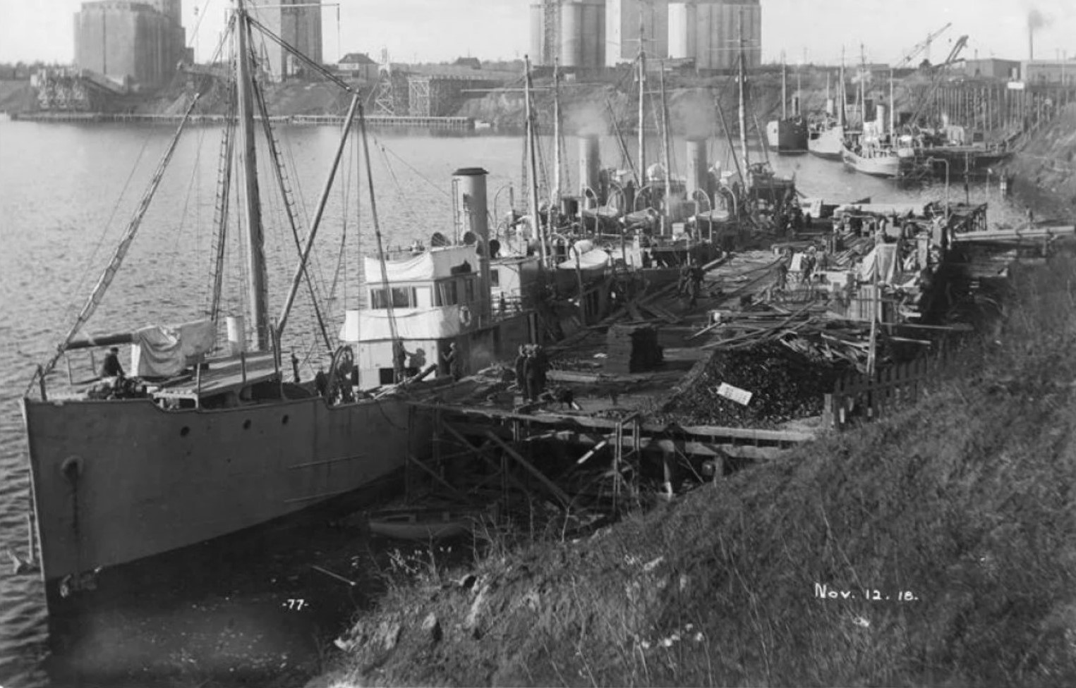 Canadian Car & Foundry, in Fort William, Ontario, built minesweepers for France, in WW1. Original caption: "Minesweepers being built for the French Navy are seen at the Canadian Car and Foundry in Fort William, Ontario (now Thunder Bay) in November 1918. (City of Thunder Bay Archives Accession #1991-1-360-77)"